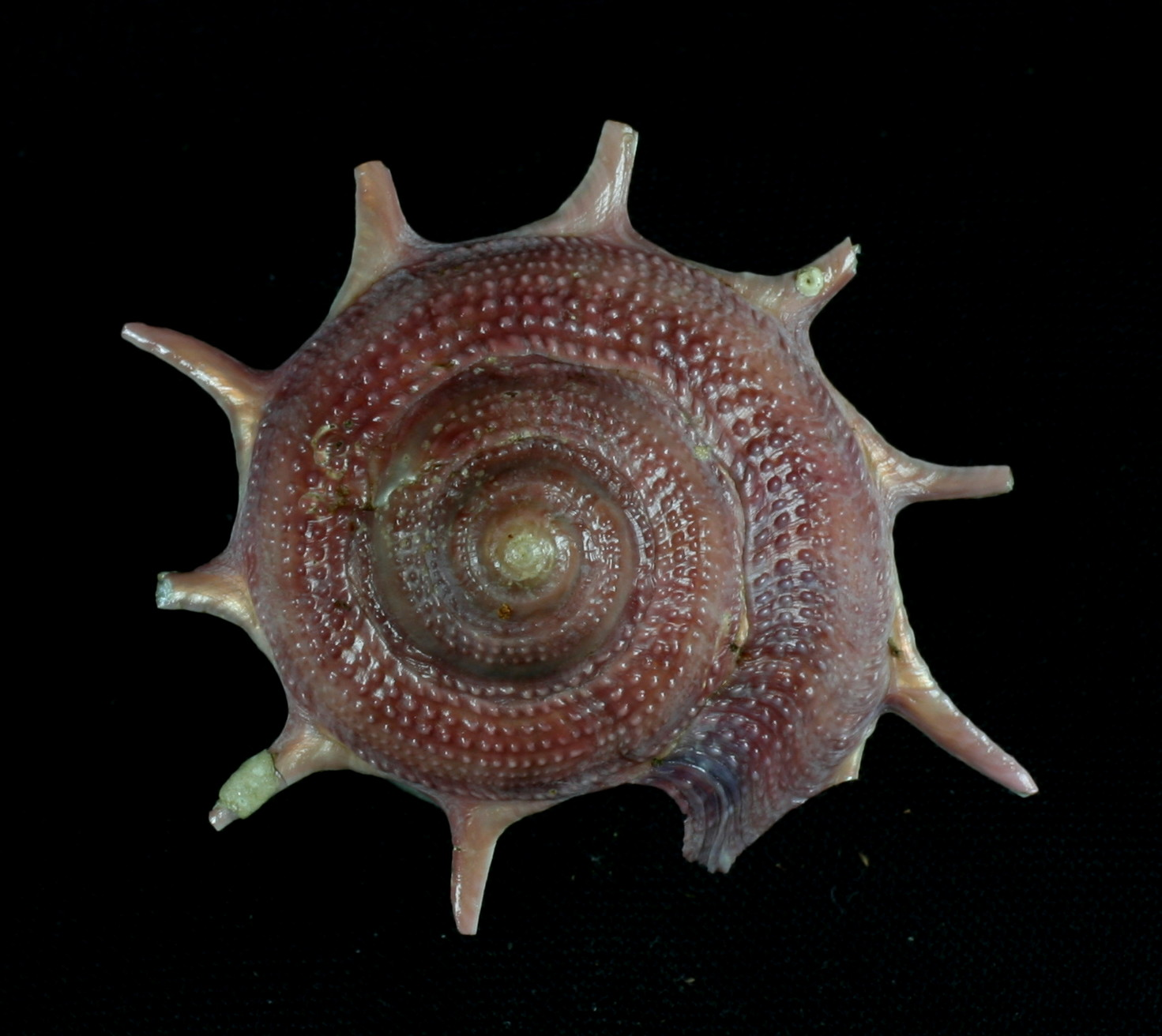 Turbinidae: Guildfordia triumphans (Philippi, 1841)